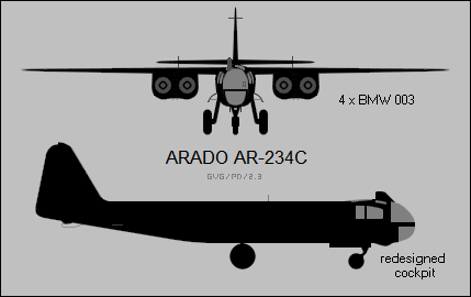 Side-view silhouette of the Arado Ar 234C